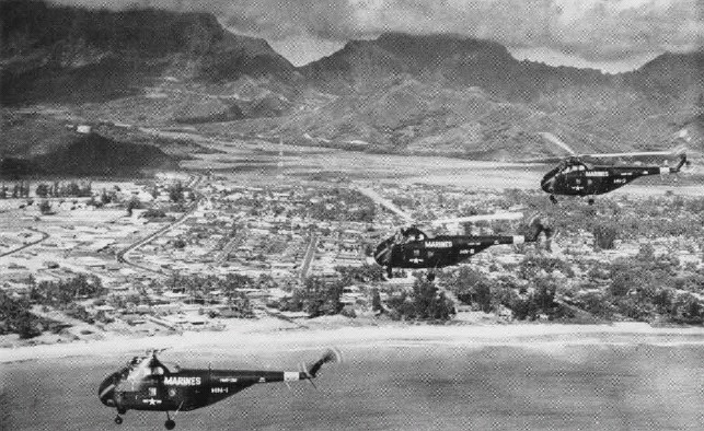 Three Sikorsky HRS-1 helicopters of U.S. Marine Corps squadron HMR-361 over Kāneʻohe Bay and the windward side of Oʻahu, in Hawaiʻi. (USA), in 1953.